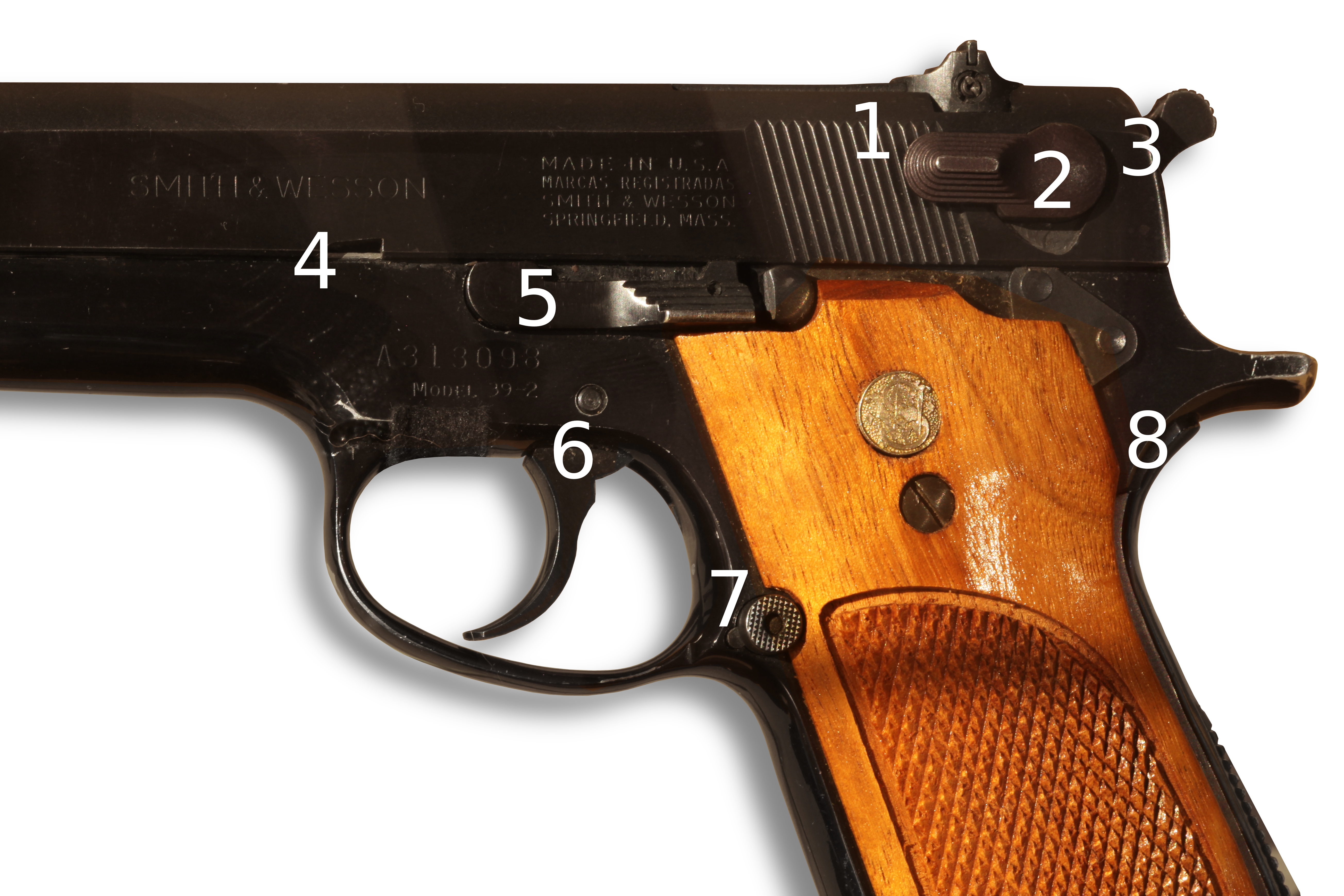 Smith & Wesson Model 39. On display at Morges military museum.